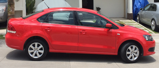 My VW Vento (Polo Sedan) 2014.